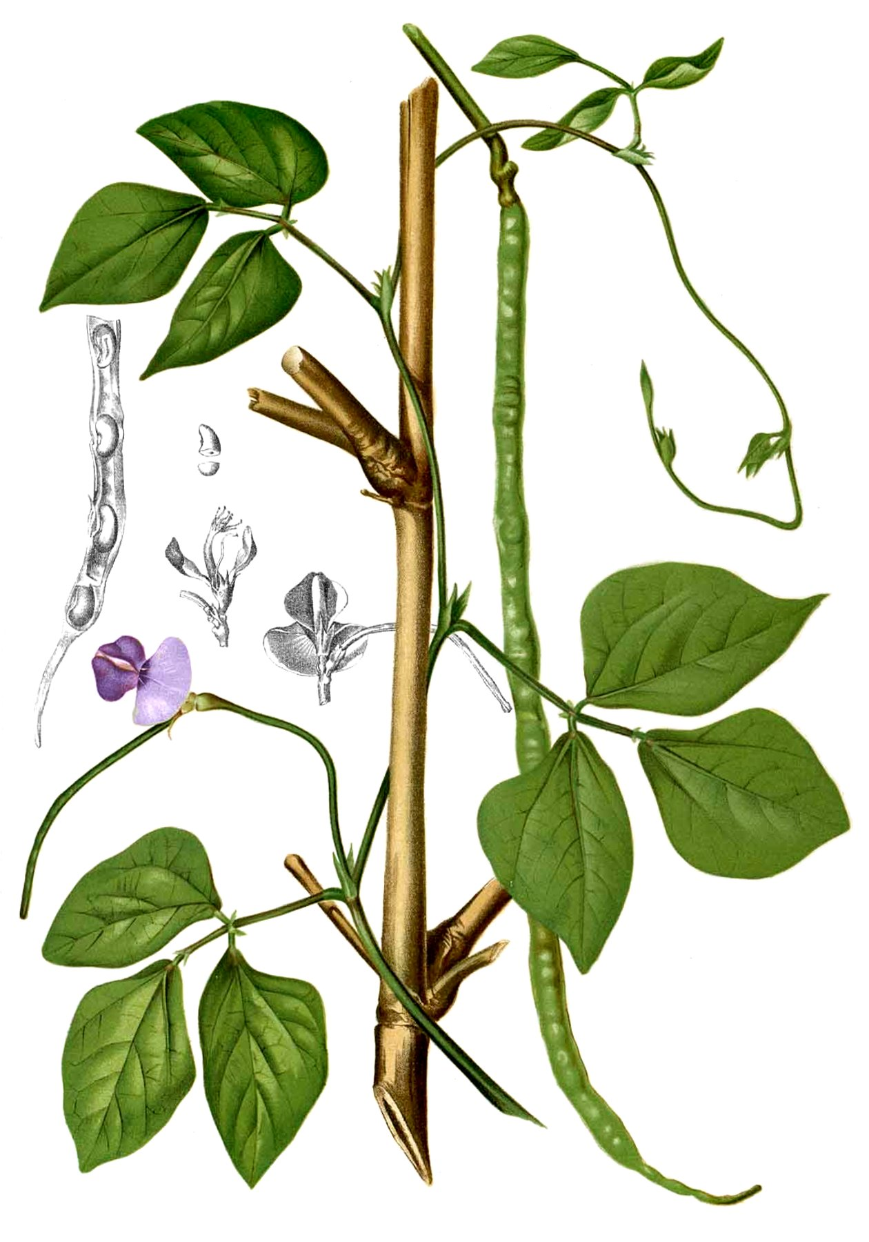 Plate from book